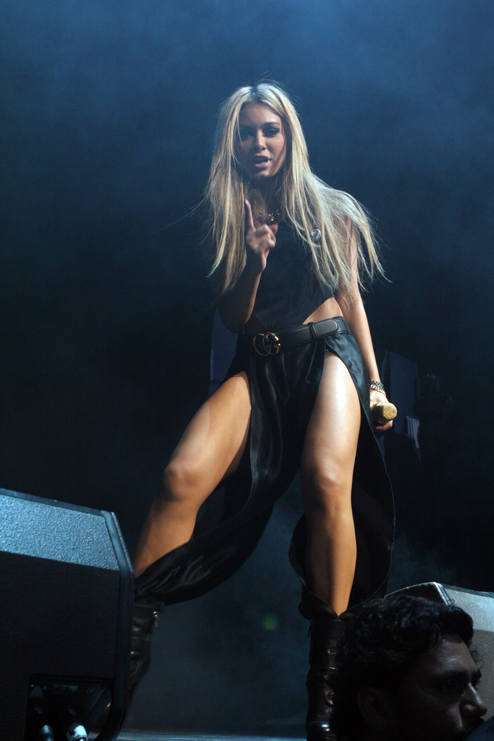 DJ Havana Brown performing on the Planet Pitt World Tour in Sydney, Australia.